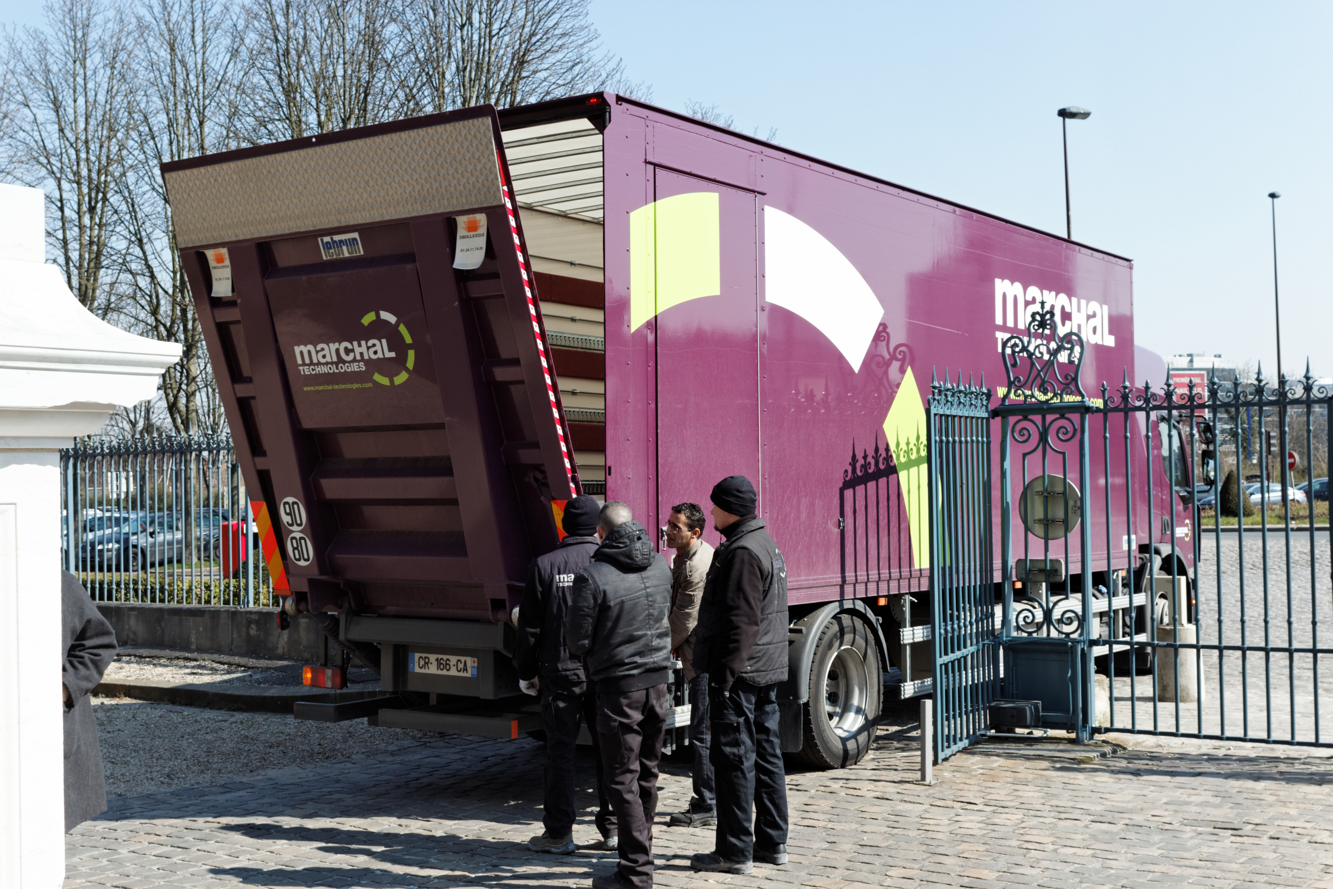 Removal of two Jingdezhen Ceramic vases from the entrance of the National Museum of Ceramics of Sèvres.